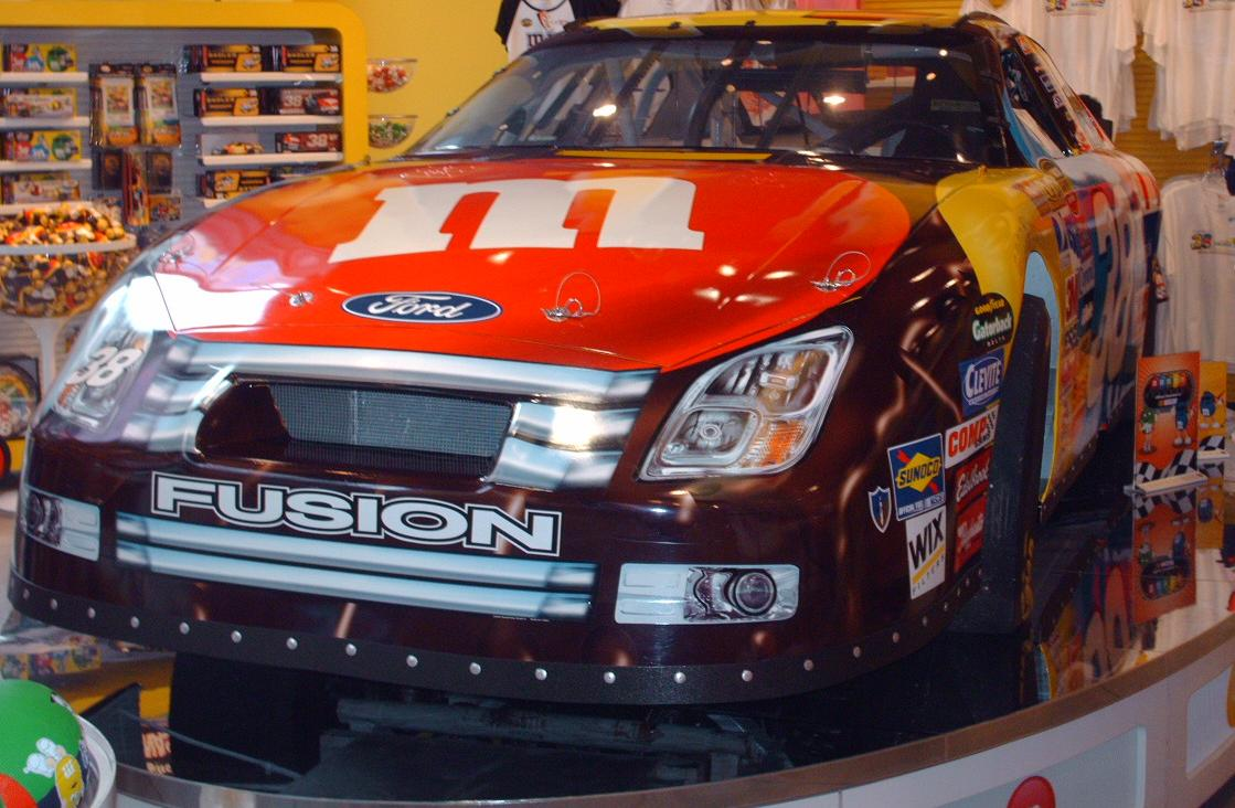 2006 Ford Fusion (NASCAR) photographed in New York City, New York, USA.